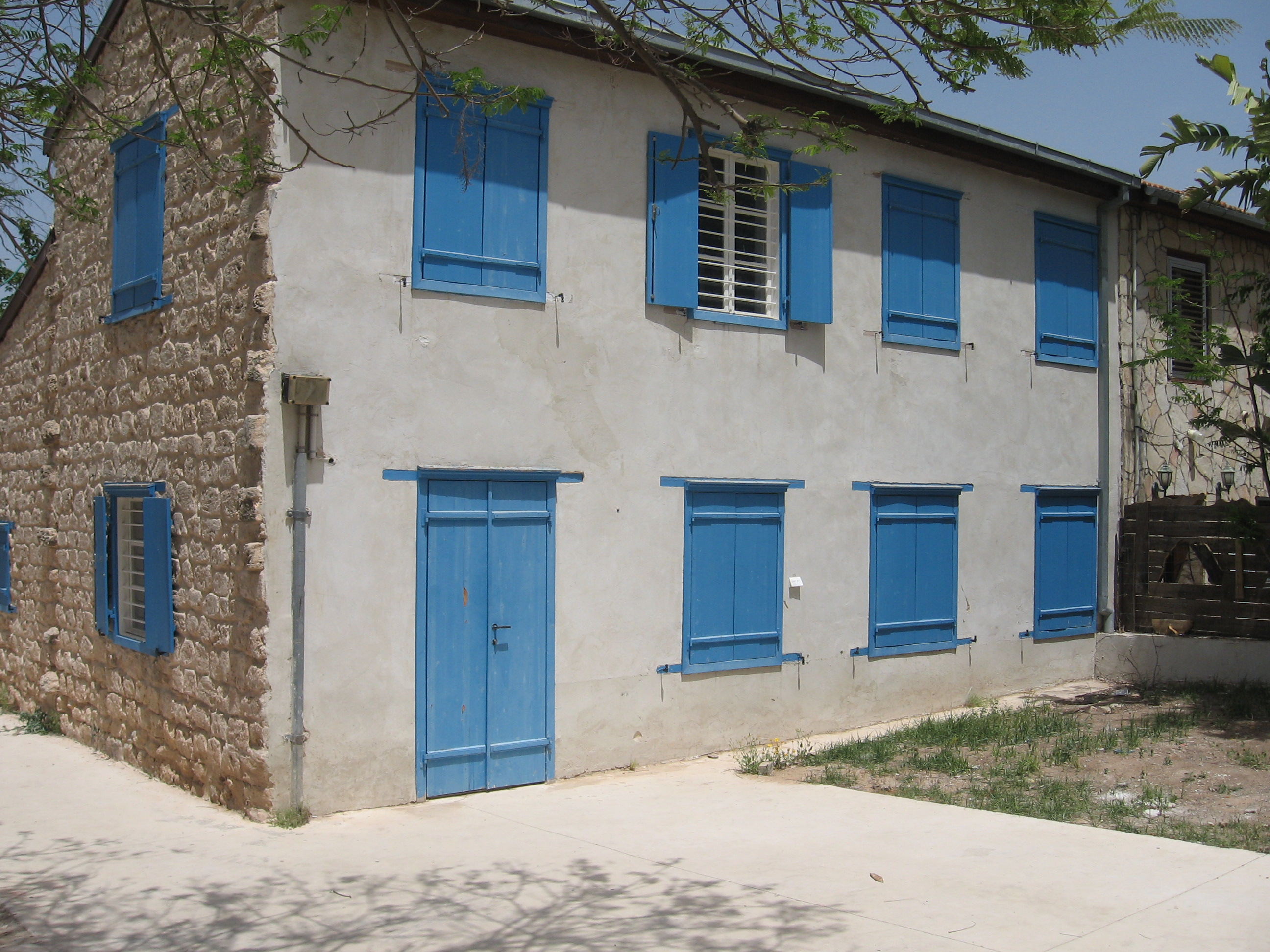 Caserma old house from 1894